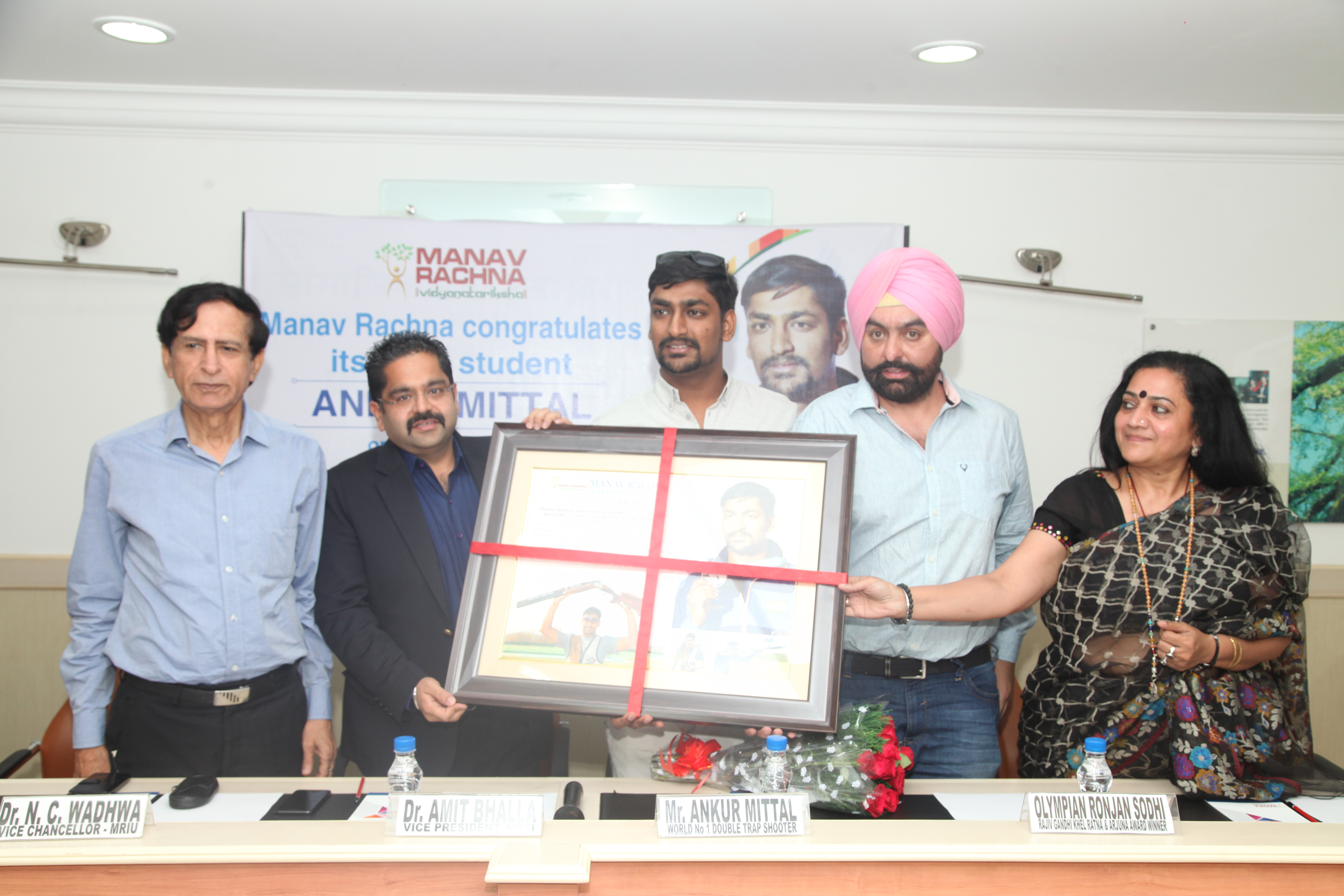 Felicitation of Double-Trap Shooting World No. 1 Ankur Mittal by Dr. Amit Bhalla, Vice President, Manav Rachna International University alongwith erstwhile double-trap World No. 1 Mr. Ronjan Sodhi